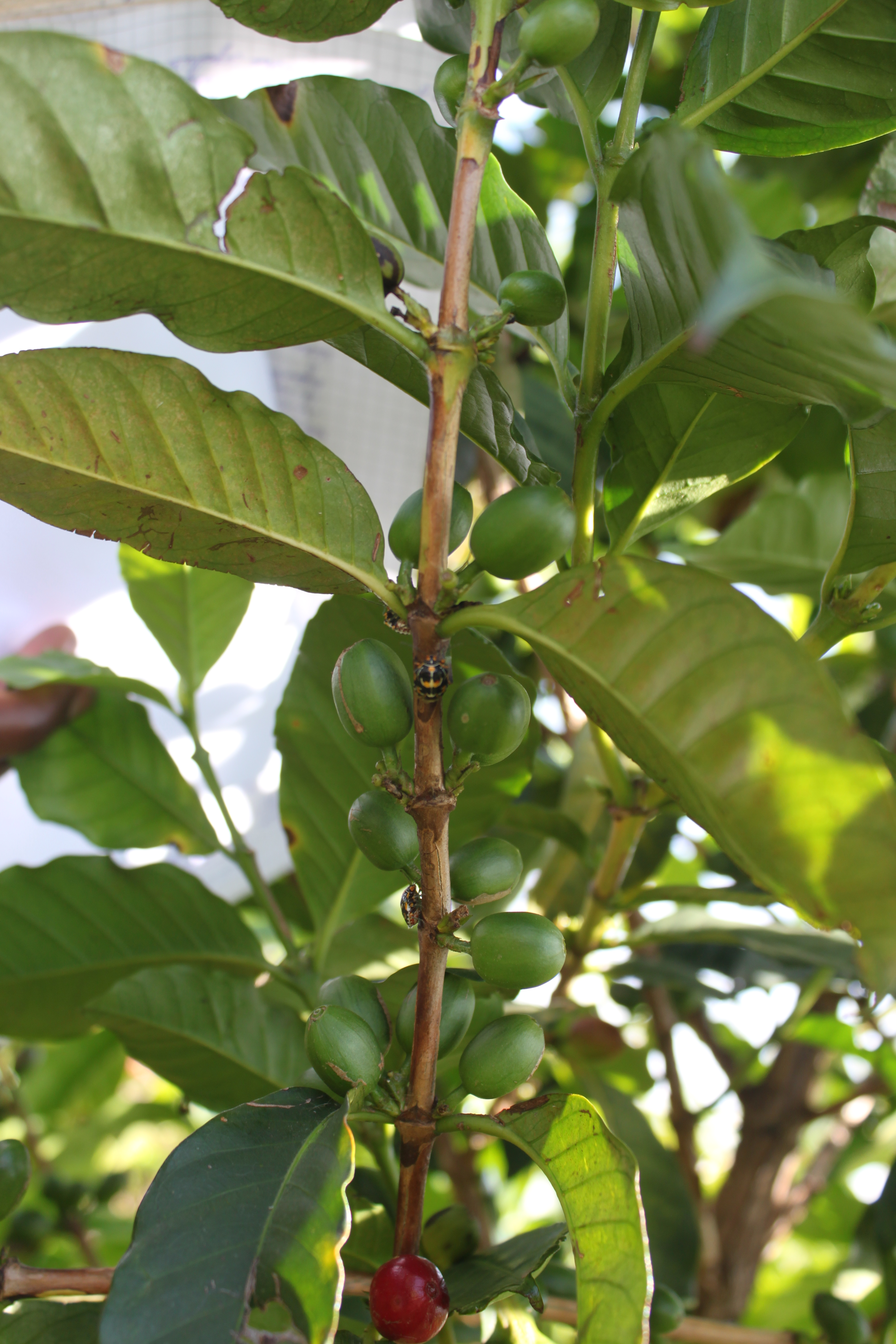 A photograph of an antestia bug (Antestiopsis) on a coffee tree in Burundi.